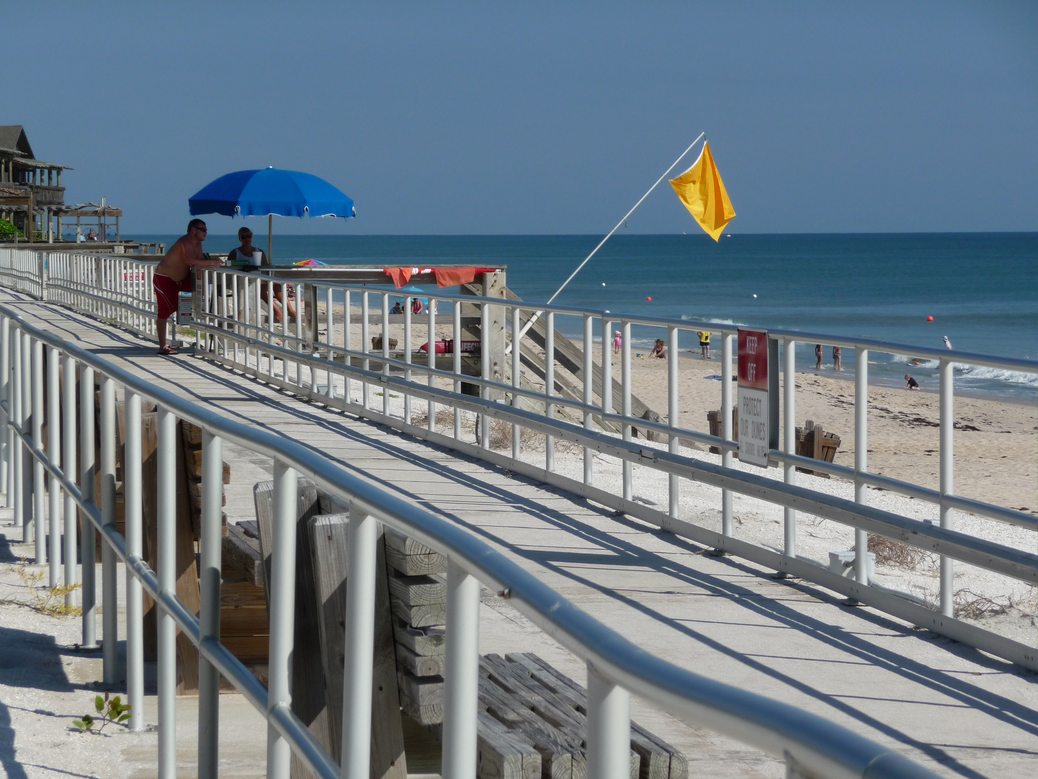 Humiston Beach in Vero Beach, FL